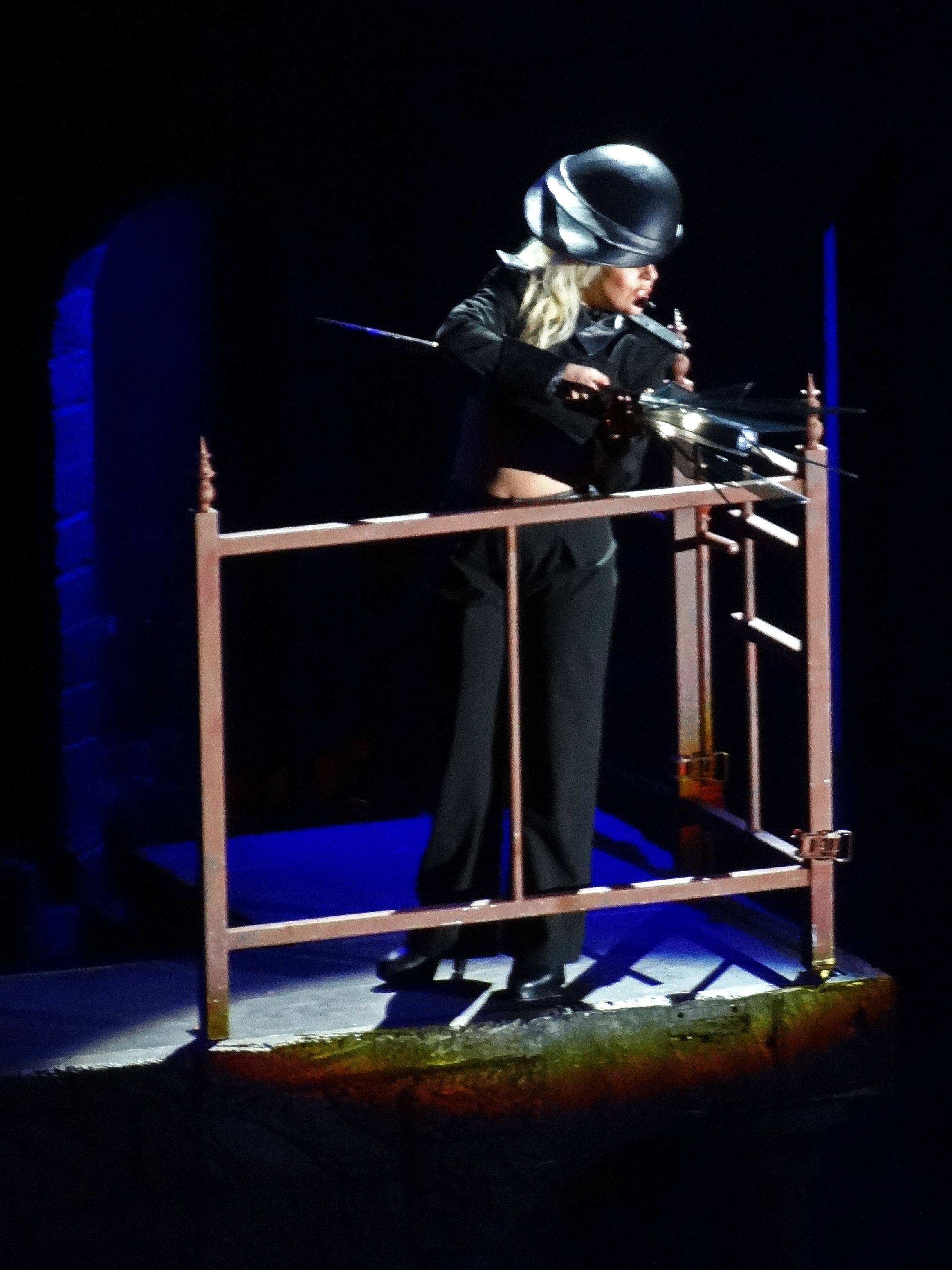 Lady Gaga performing "Paparazzi" on The Born This Way Ball Tour.